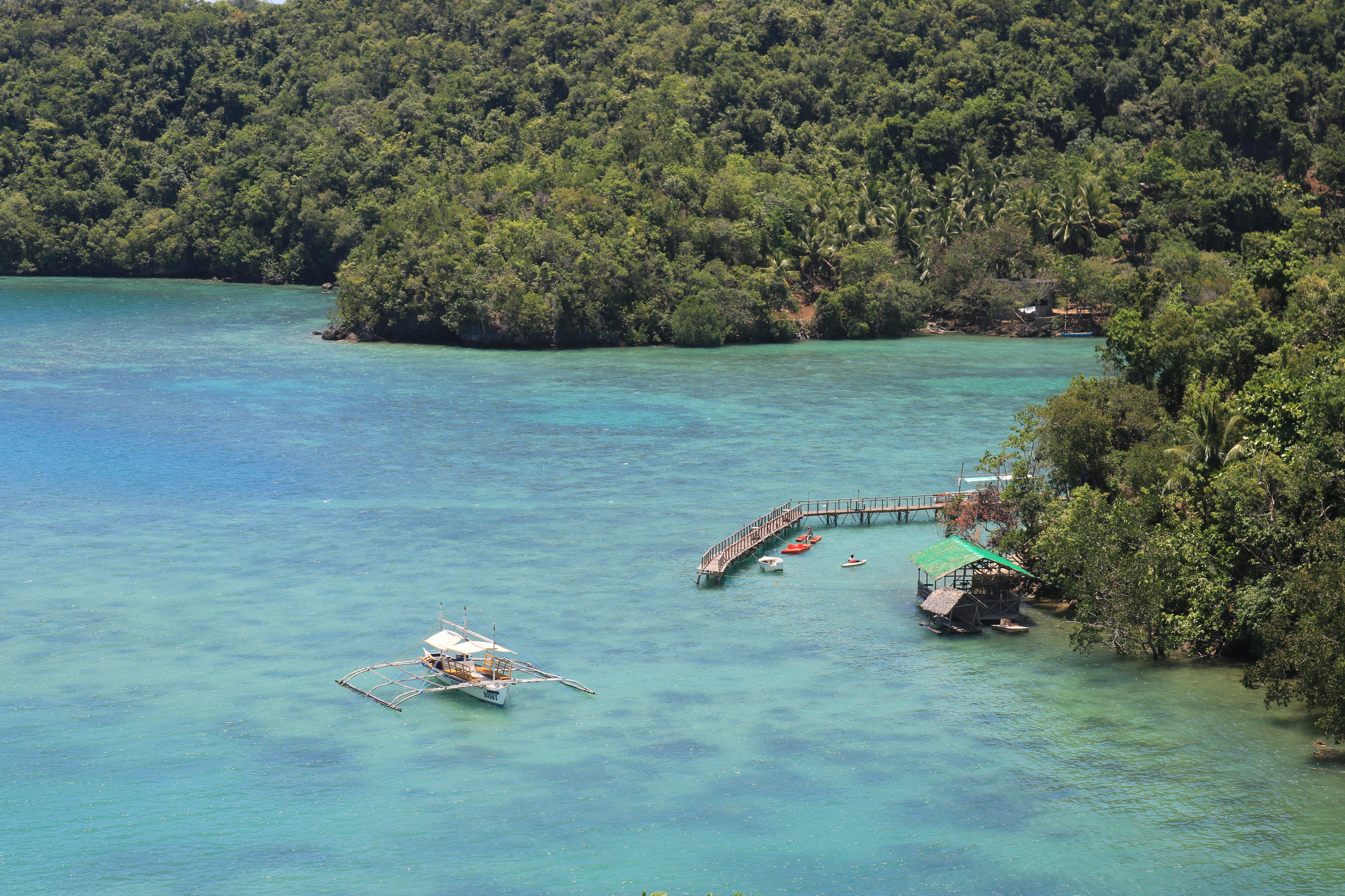 Pump boat in Sipalay viewed from Perth Paradise Resort